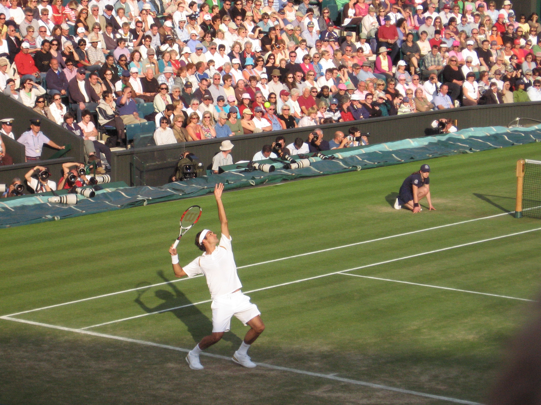 Roger Federer serving in a match against Marat Safin in Wimbledon, 2007